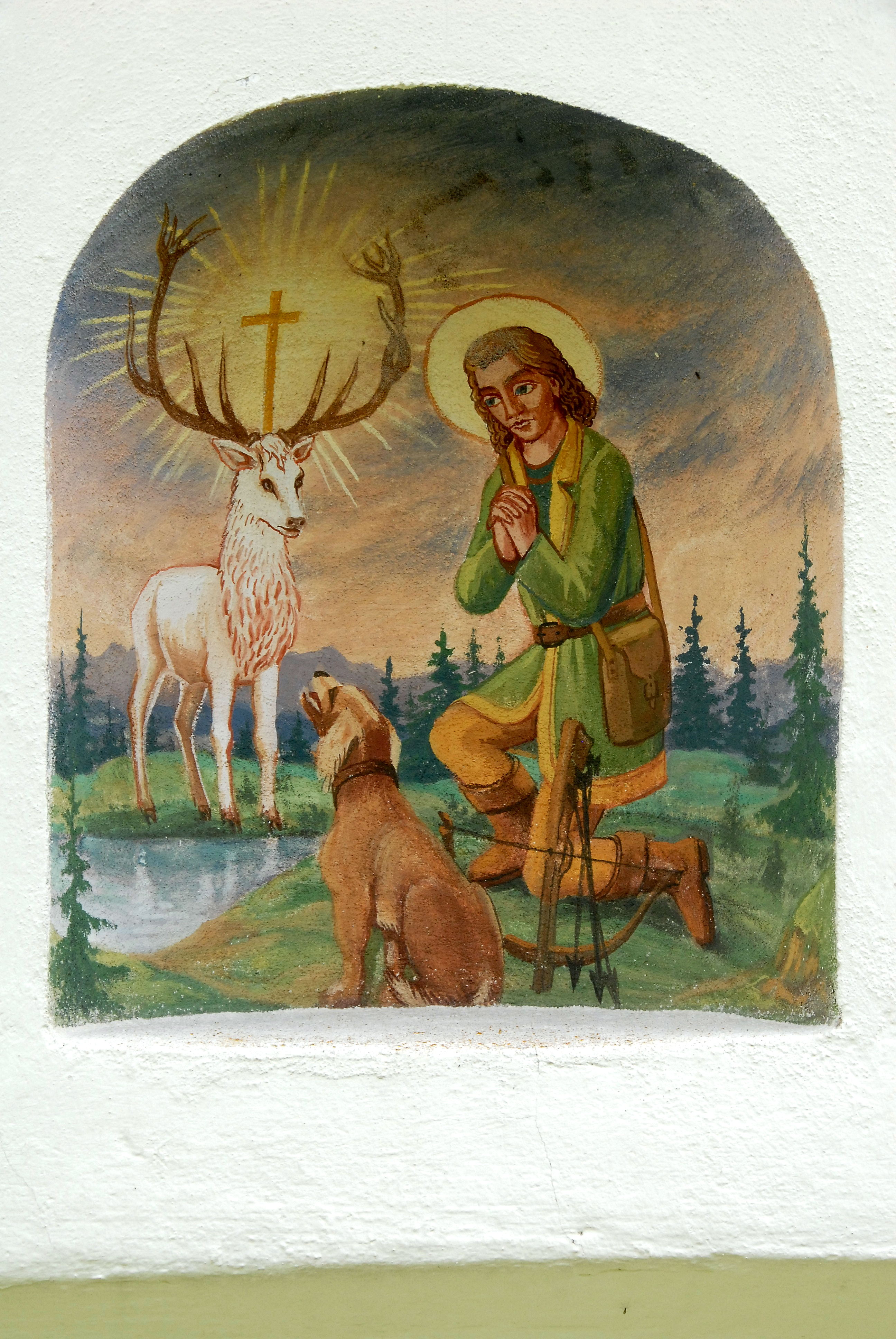 Alcove painting in the wayside shrine east of the village Soerg in the community Liebenfels, district Sankt Veit an der Glan, Carinthia, Austria